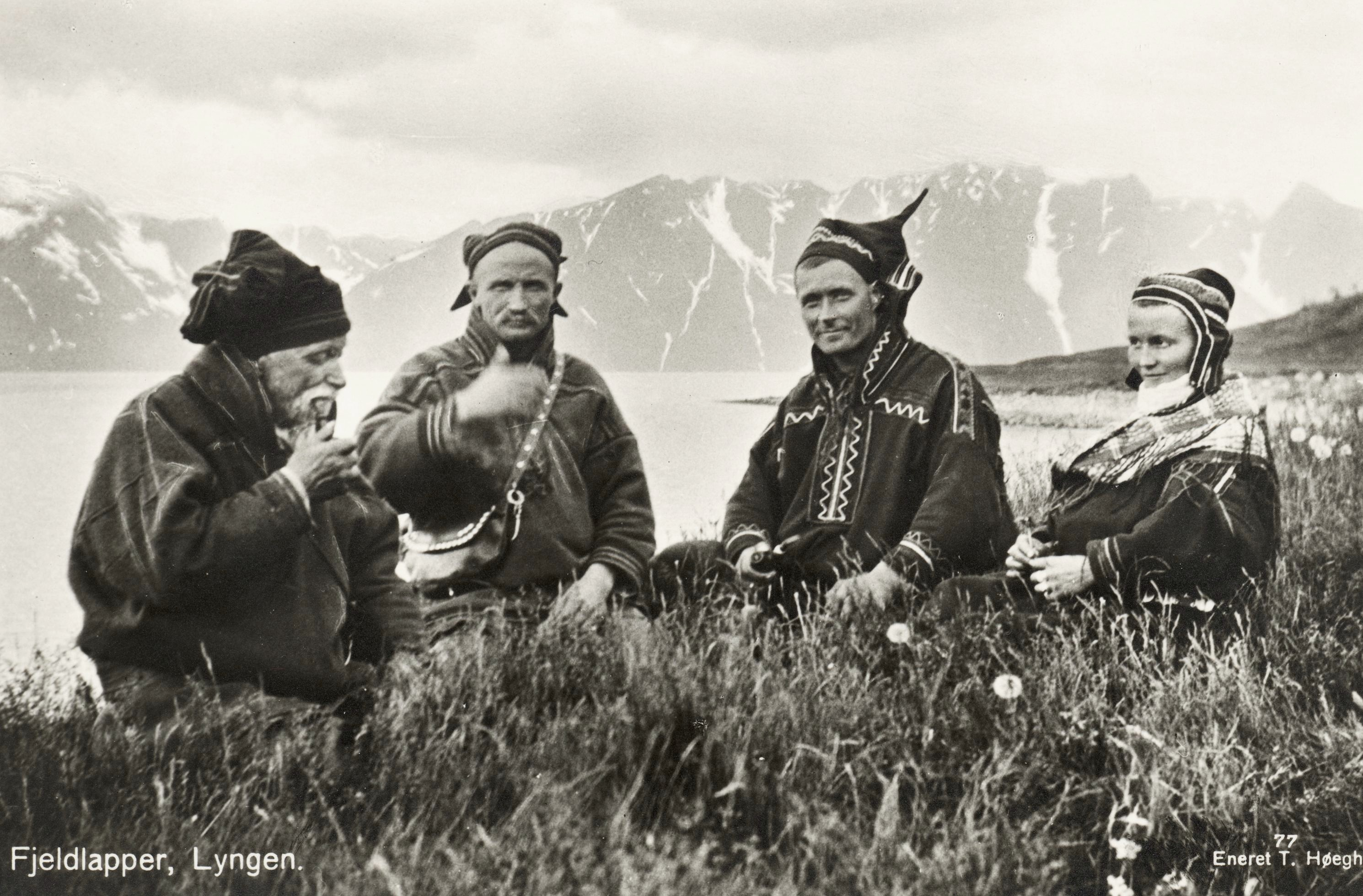 A group of Mountain Sami people in Lyngen, Troms in Norway. This photo postcard was published by T. Høegh in 1928. According to P.L. Smiths book "Kautokeino og Kautokeino-lappene", from 1938, the photo shows "Sommerliv på Uløen" ("Summer life on Uløya") and the photographer was A. Giæver.